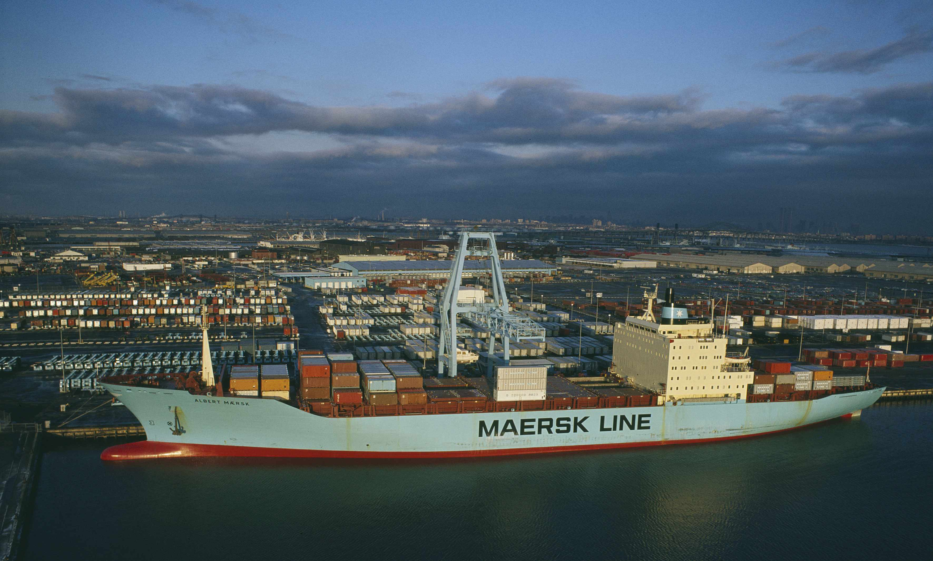 Albert Mærsk in the 70s